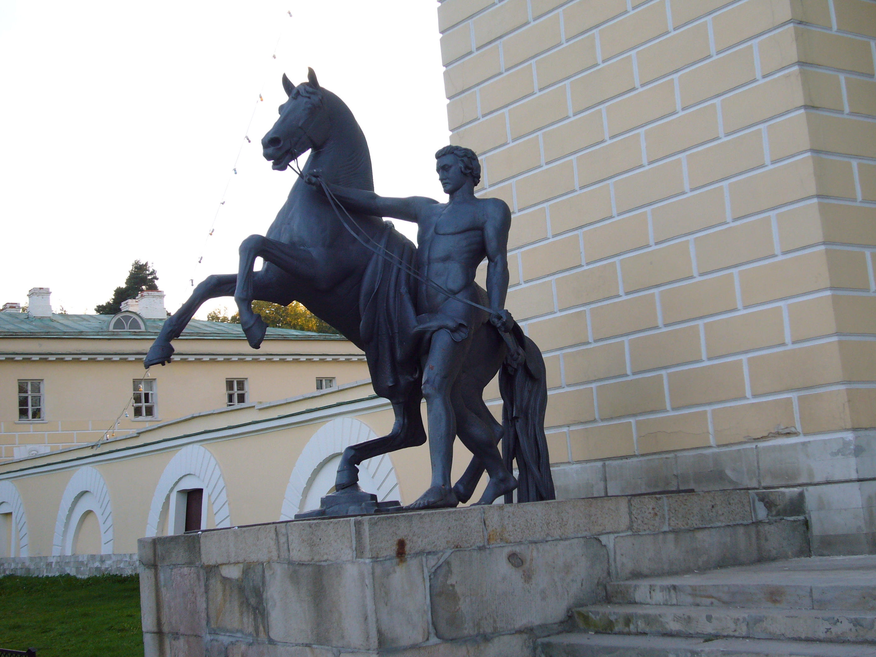 Statue near the stable complex (stable building and Music pavilion) in Kuzminki. It's copie of statue by Pyotr Klodt.